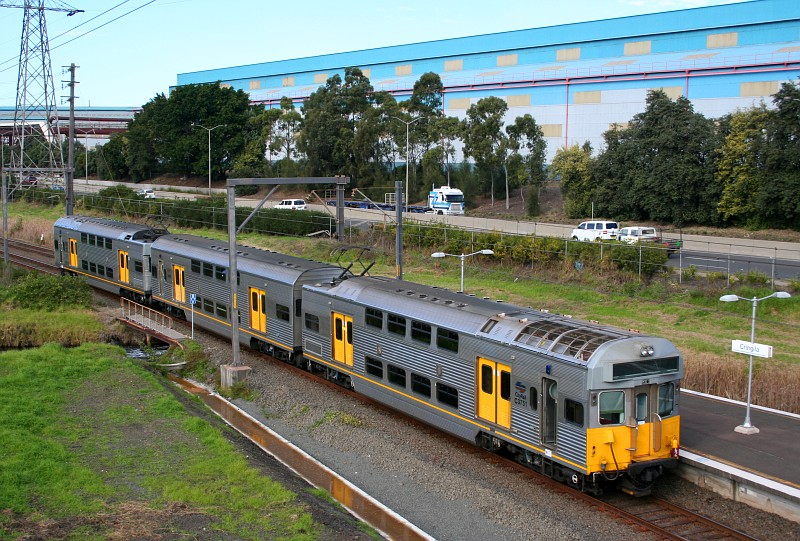 L2 at Cringila.